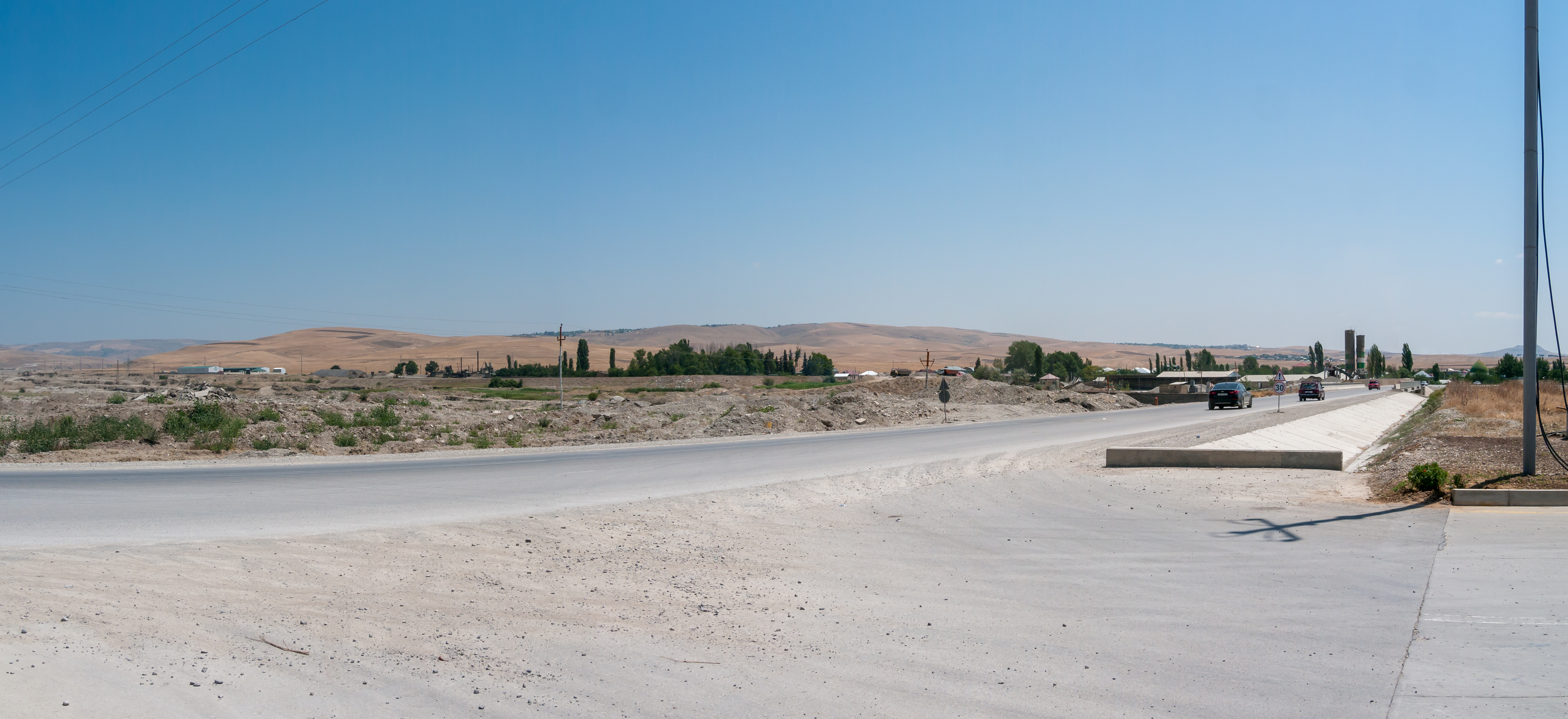 National Road M4 in in Sabir, Azerbaijan